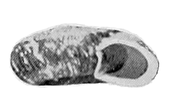 Photo of an apertural view of a shell of Gudeodiscus messageri.